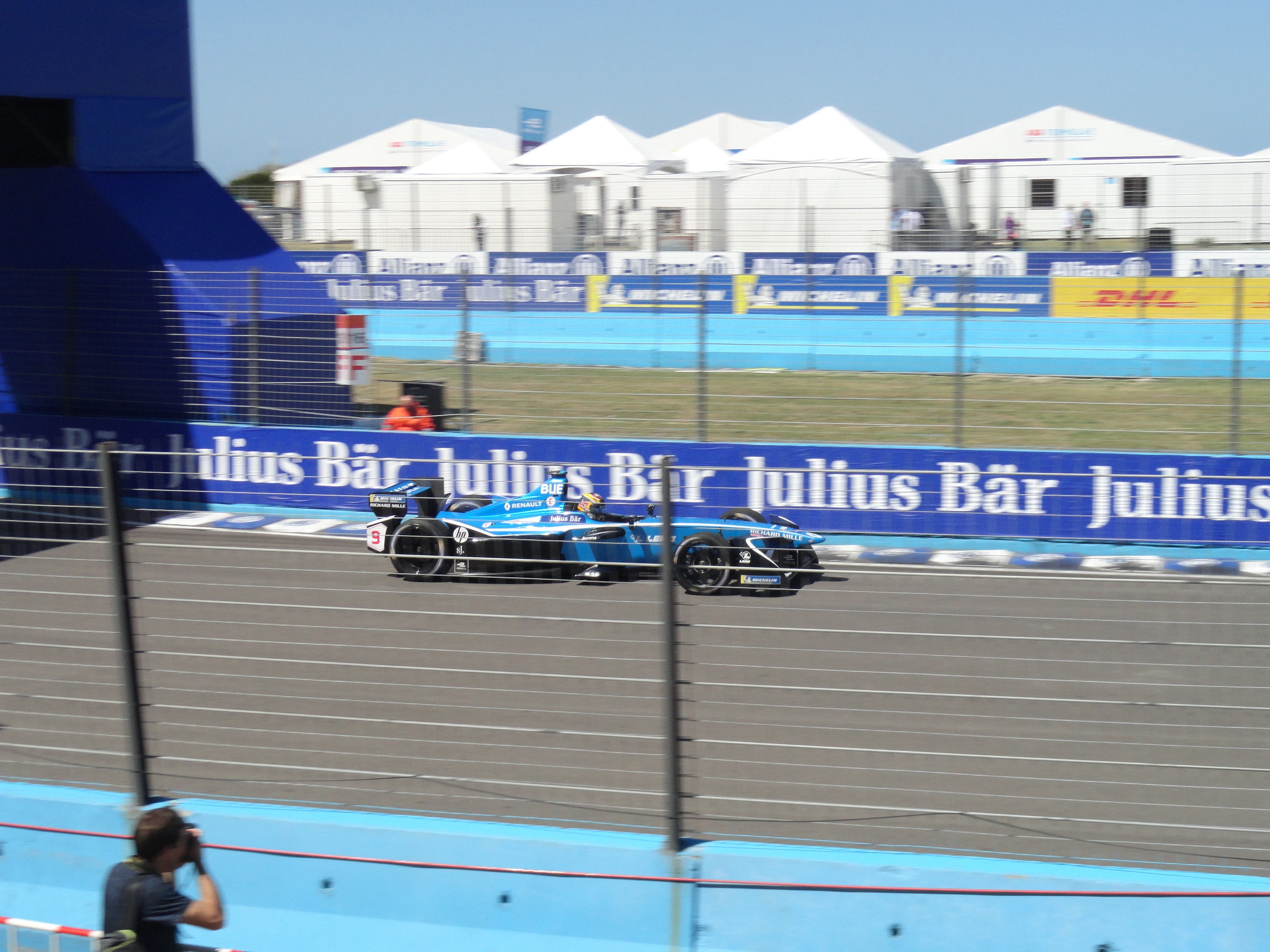 Qualifying at the 2018 Punta del Este ePrix.